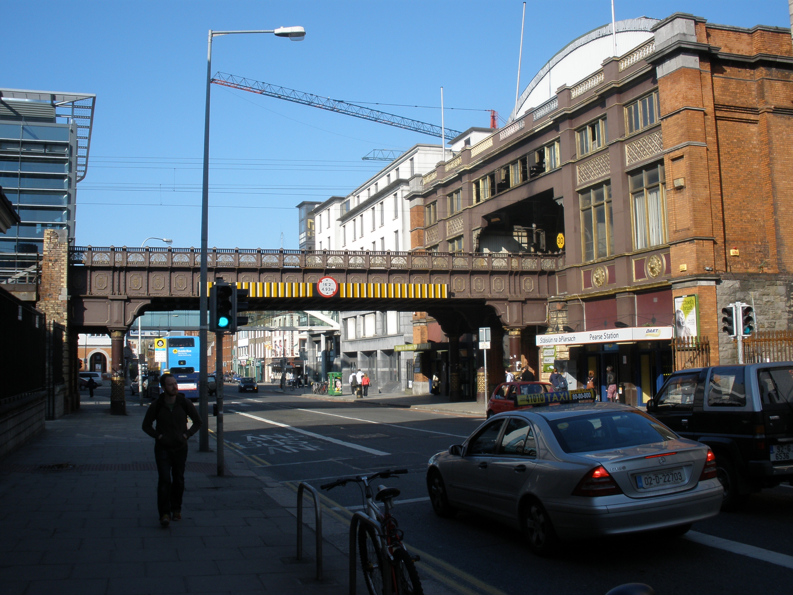 Street named Westland Row in Dublin with overhead railway bridge entering Pearse Station at right. Camera points northeast.